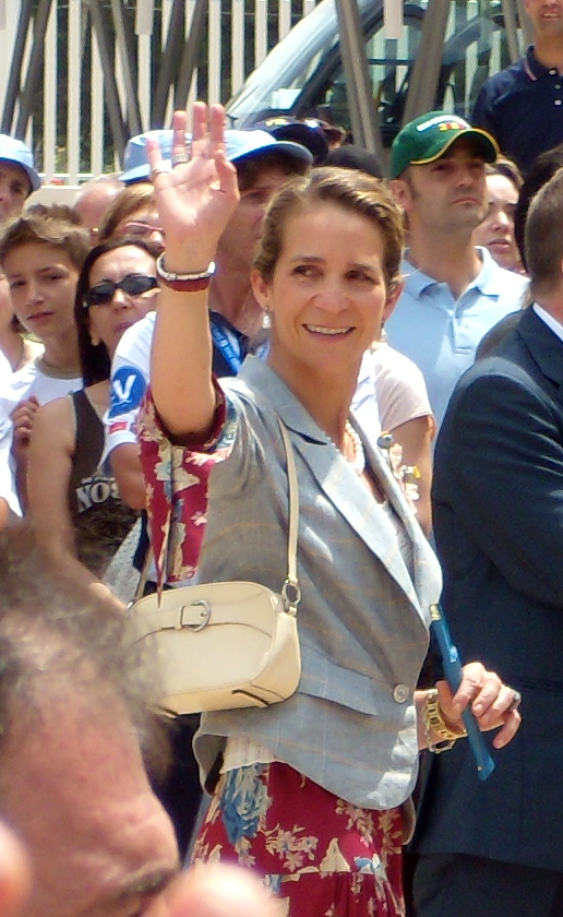 Infanta Elena, Duchess of Lugo, Grandee of Spain (Elena María Isabel Dominica de Silos de Borbón y de Grecia; born 20 December 1963)